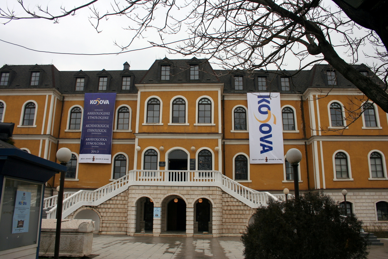 Museum of Kosova